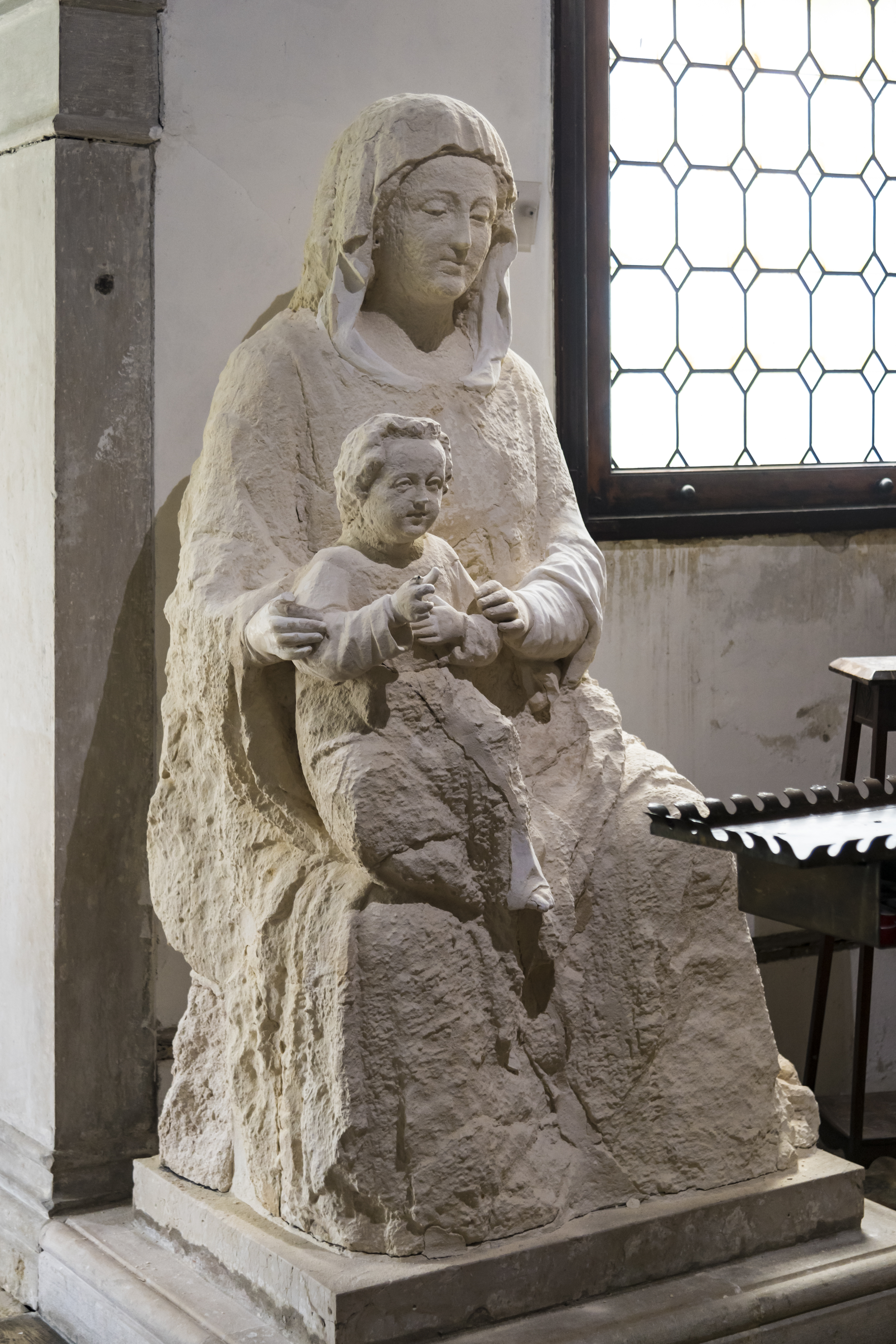 Madonna dell'Orto, Venice - Madonna dell'Orto (Venice) - Chapel St.Mauro - Statue of Madonna dell'Orto by Giovanni de Santi (Befort1377)